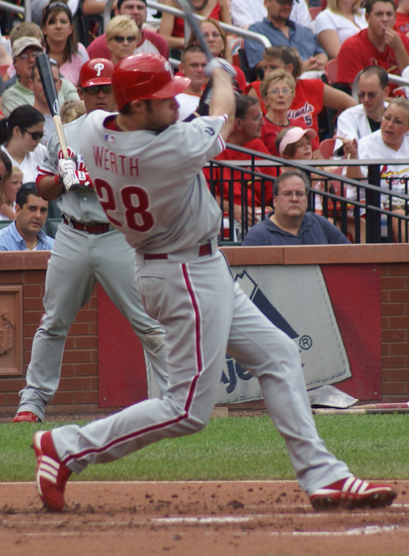 Description Jayson Werth DateJune 24, 2007SourceCropped version of this pictureAuthorKV5 • Squawk box • Fight on! cropped from Flickr pictureOther versions Werth.jpg 01:19, 10 November 2008 . . Killervogel5 . . 1,314×1,782 (1.4 MB) Jayson Werth